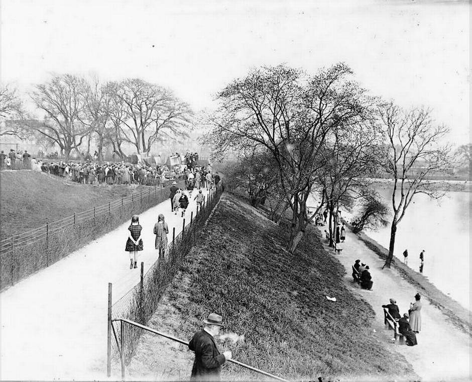 Christianshavns Vold vintage photo